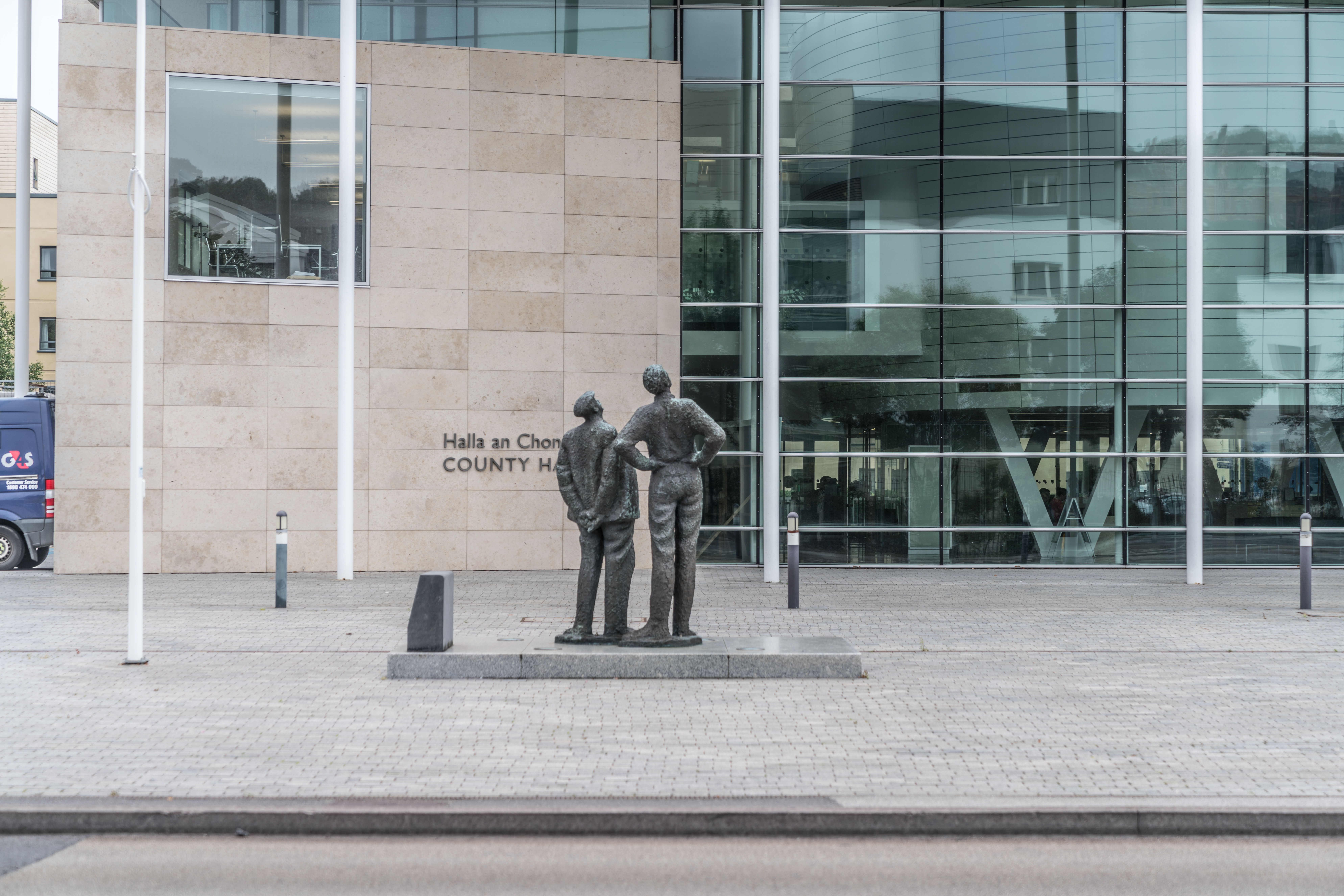 The statues consist of two men, one tall and thin and the other shorter and stout. The shorter man is shown wearing a cap and clasping his hands behind his back while the taller man's hands are placed on his hips. Both men are gazing skyward, ostensibly at the top of the building. The statue's key message is to profile the common "everyday Irish person" admiring the finished product of work in a modern Ireland. In the years after their unveiling, the statues became known locally as "Cha and Miah". The label derives from the names of two "everyman" Cork characters on the Hall's Pictorial Weekly television show which became popular in the early 1970s. Two Working Men became Kelly's second statue on public display, after his acclaimed Children of Lir was unveiled at Dublin's Garden of Remembrance in 1966.